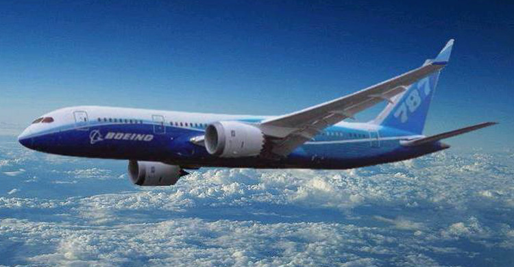 Artist impression of Boeing 787-3 Dreamliner.